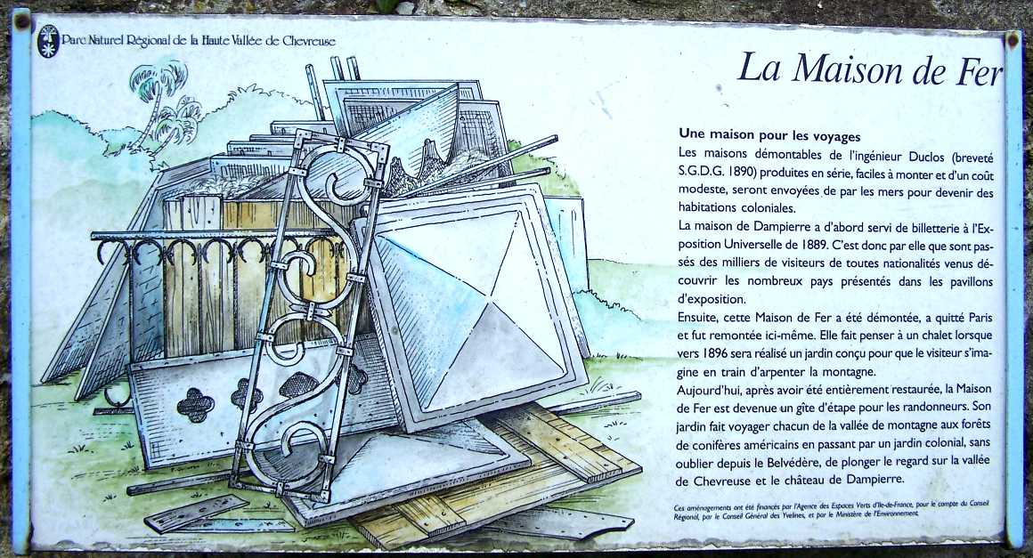 Information sign about the Iron House in Dampierre-en-Yvelines (Yvelines, France)